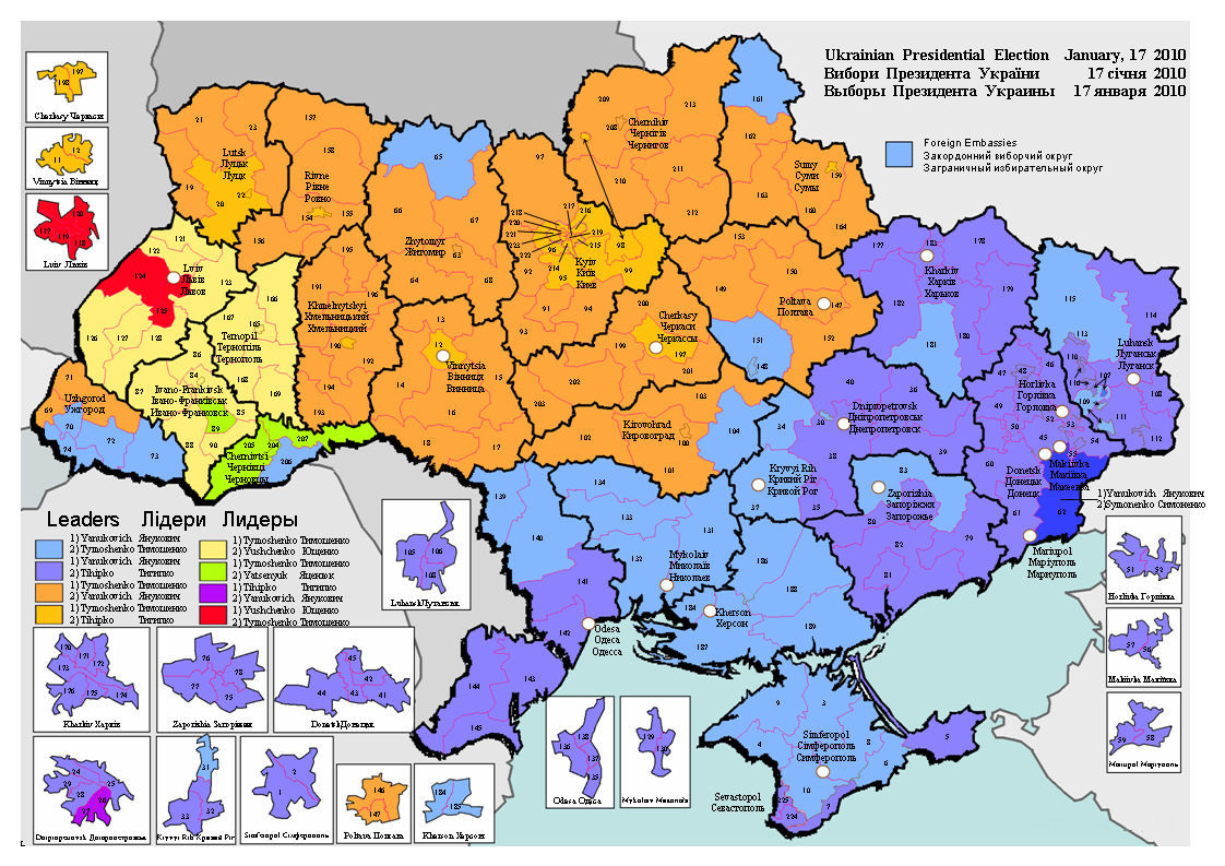 First and second places on Ukrainian presidental election 2010, 17 January